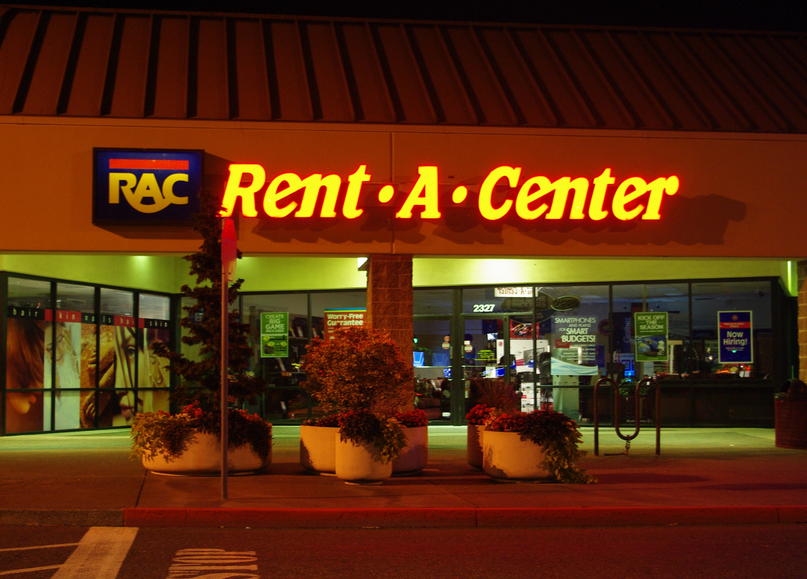 Sunset Esplanade in Hillsboro, Oregon.